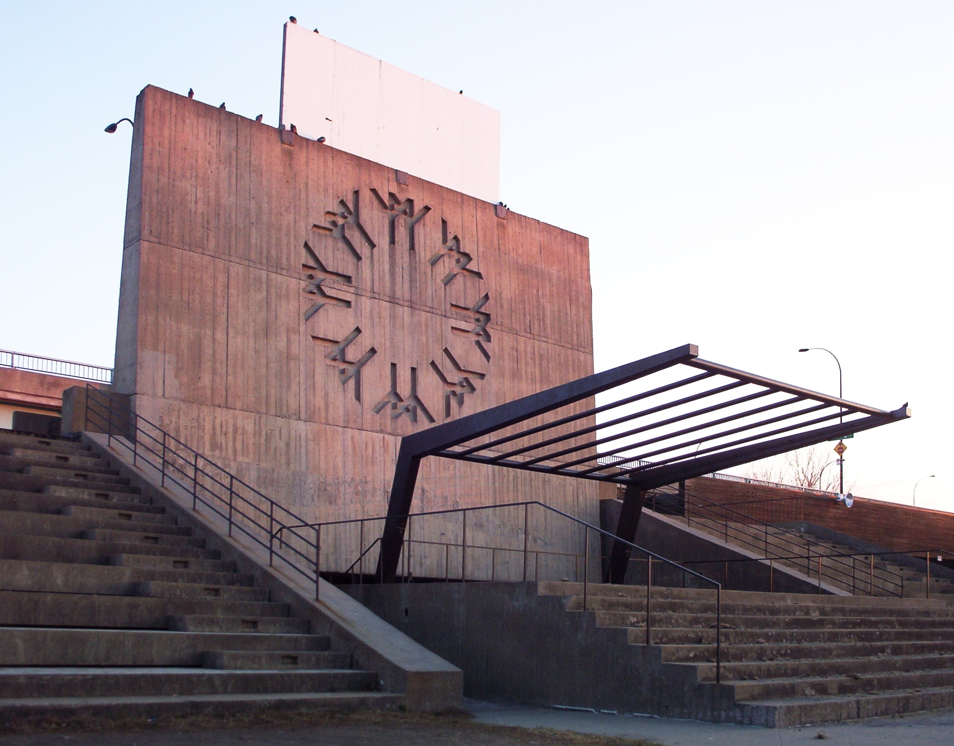 The "Place des nations", on Sainte-Hélène island, part of the Montreal universal exposition of 1967